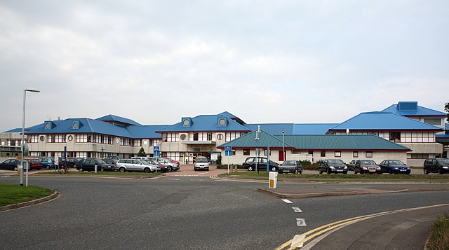 Royal Bournemouth Hospital. This is a large modern district general hospital with a distinctive blue roof on an out of town site. It covers a larger area than the photo shows. It replaced the Royal Victoria Hospital, Boscombe, (where my father worked up to 1968) which was demolished and turned into a supermarket. Looking across a roundabout on Deansleigh Road. This is not the main entrance to the hospital for patients.